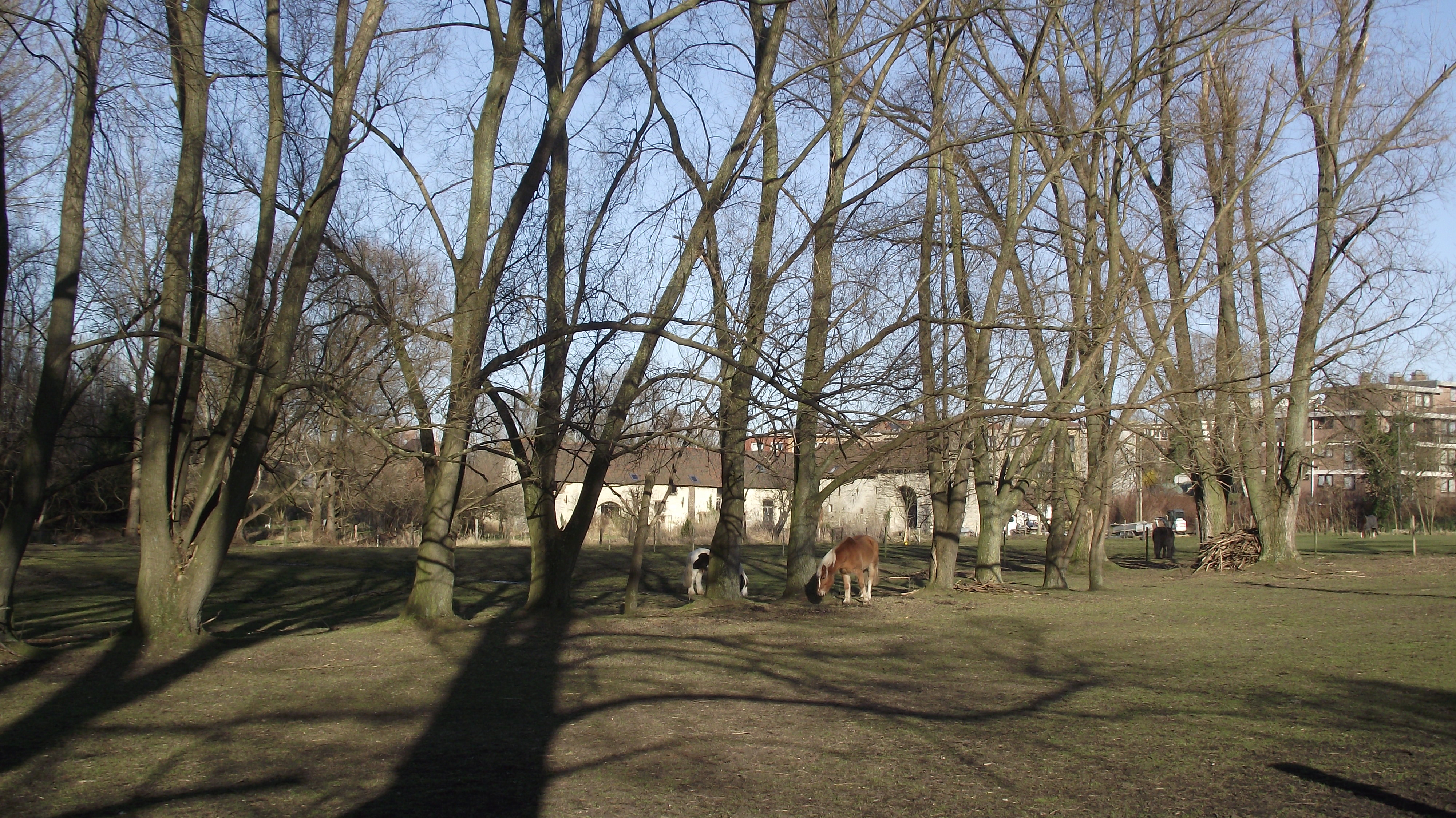 Farmhouse "du Castrum" in Haren